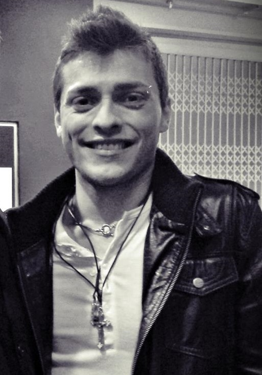 Pablo Utrera- cantante argentino